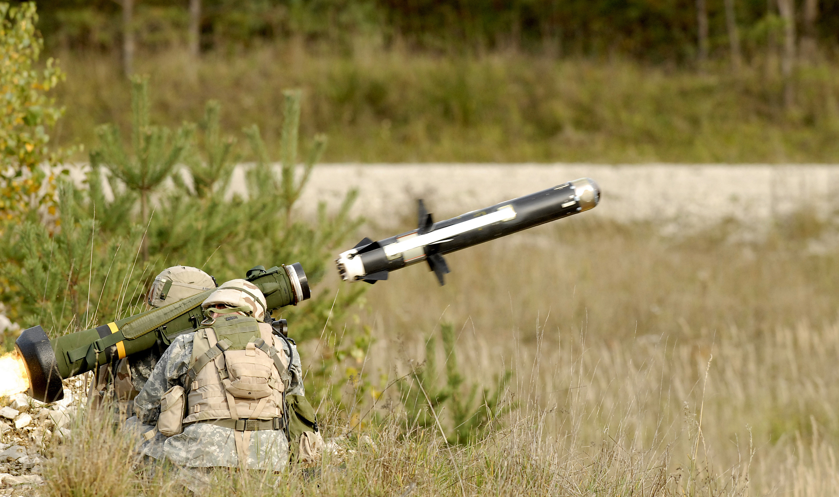 A soldier launches a FGM-148 Javelin anti-tank missile Weight (missile and CLU): 49.5 lbs Length overall: 3 ft 6 in Range: In excess of 2500m Crew: 2 Manufacturer: A joint venture between Raytheon (Tucson, AZ) and Lockheed Martin (Orlando, FL).